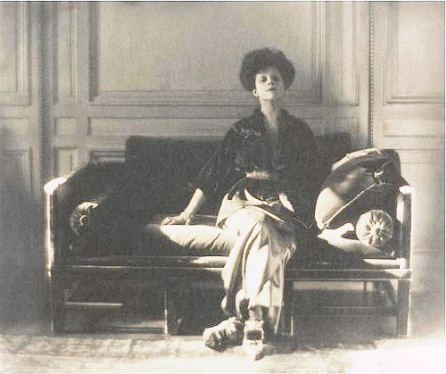 Photograph of Rita Lydig